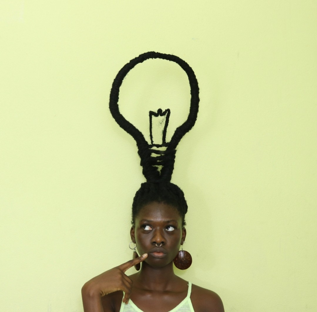 Lightbulb